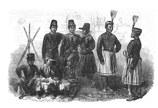 THAILAND. Amazons Of the King of Siam's Guard - 1866 - old antique vintage print - engraving art picture prints of Thailand Kings - The Graphic